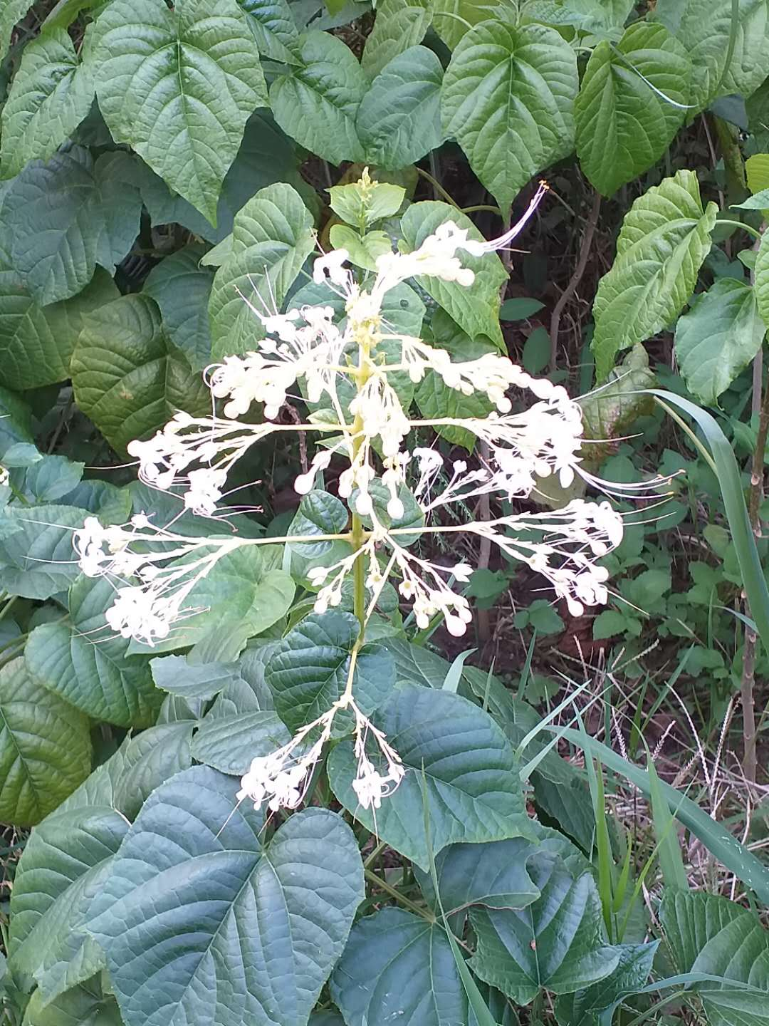 Clerodendrum paniculatum L. 2018 Taichung World Flora Exposition, Taiwan.